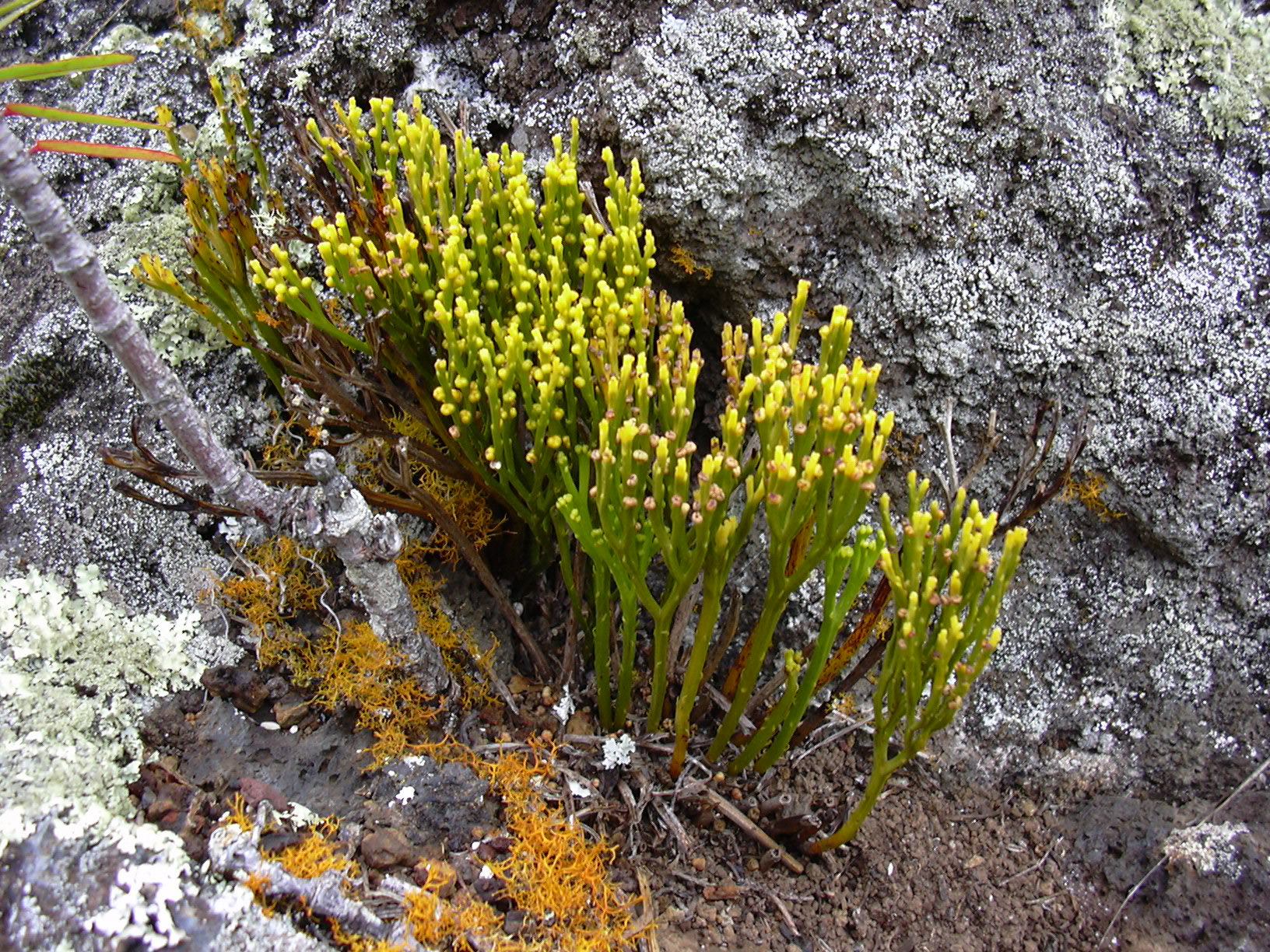 Psilotum nudum (habit). Location: Maui, Auwahi